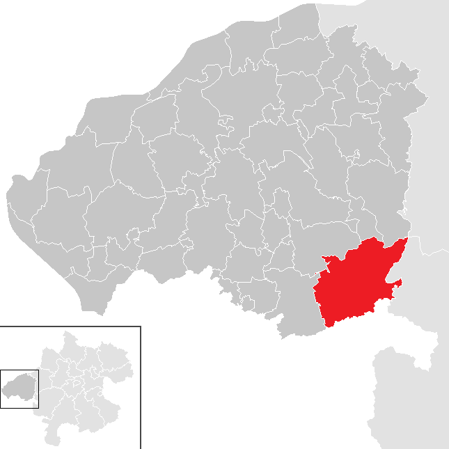 district Braunau am Inn